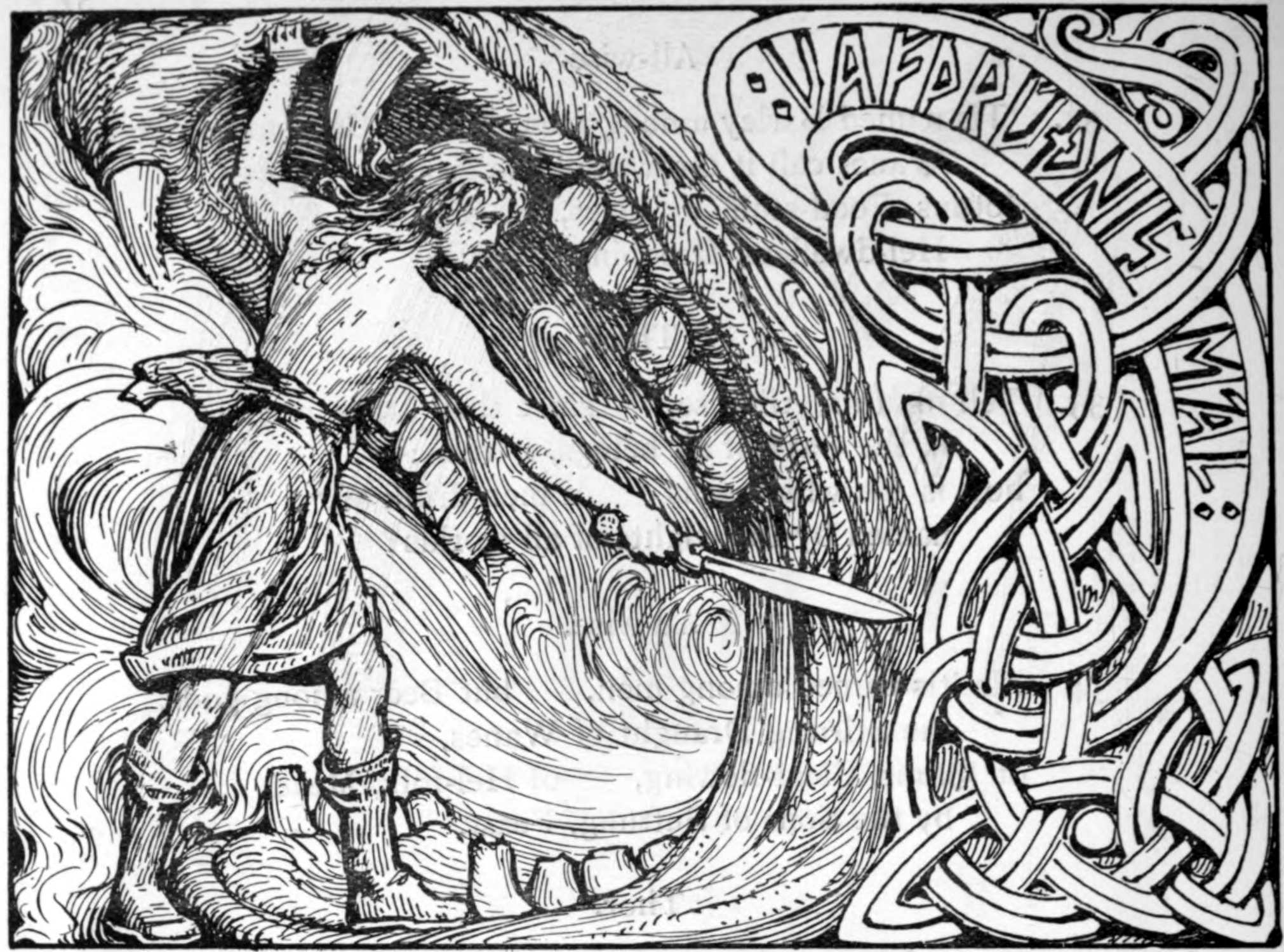 The god Víðarr stands in the jaws of Fenrir and swings his sword. The list of illustrations in the front matter of the book gives this one the title Vidar (motive from the Gosforth Cross).